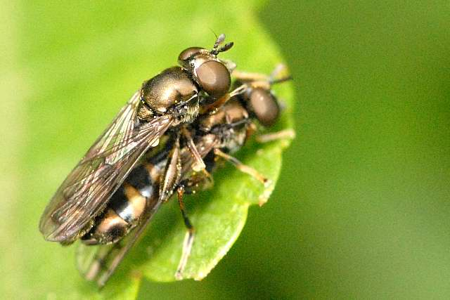 Neoascia podagrica from Commanster, Belgian High Ardennes .